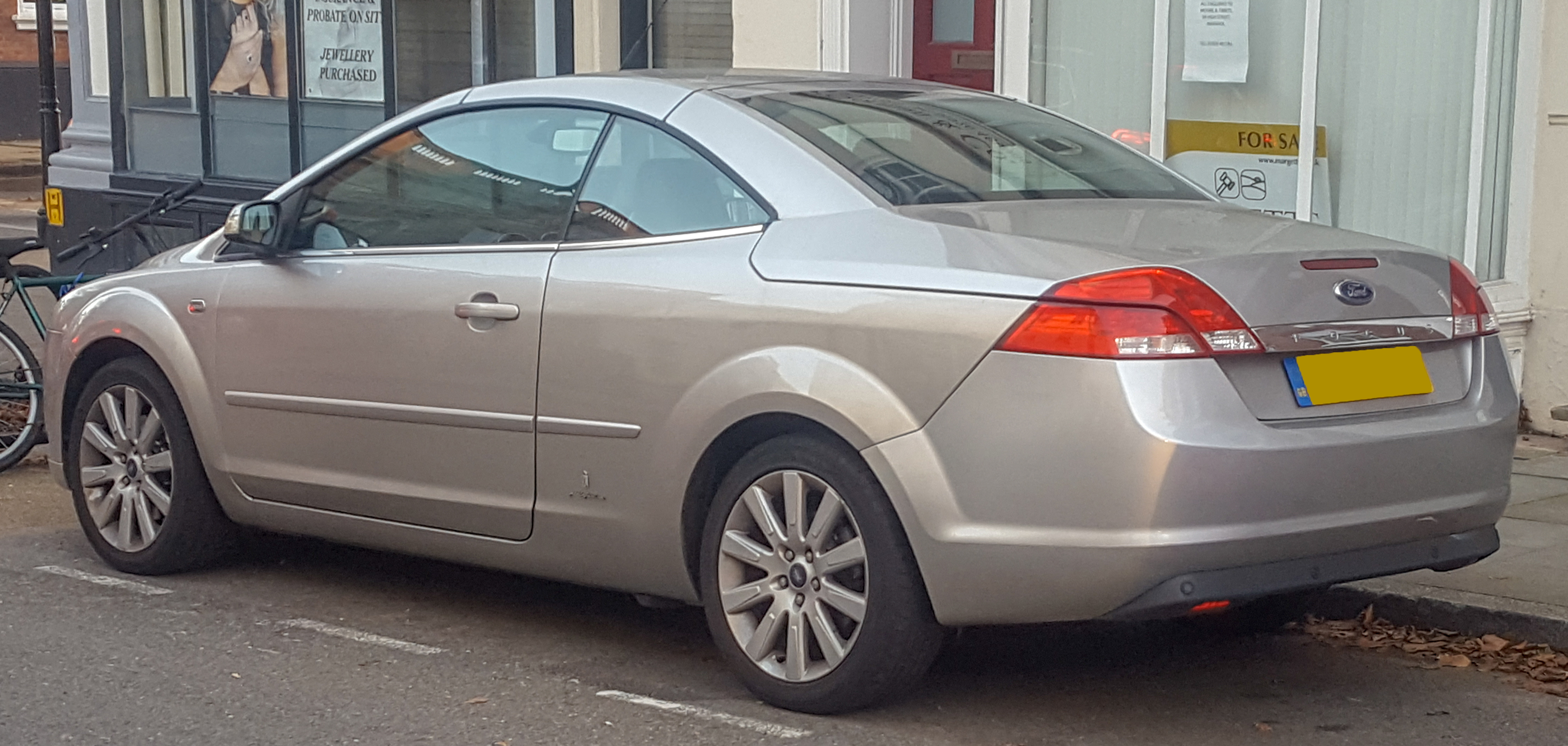 2008 Ford Focus CC-3 2.0 Rear Taken in Warwick